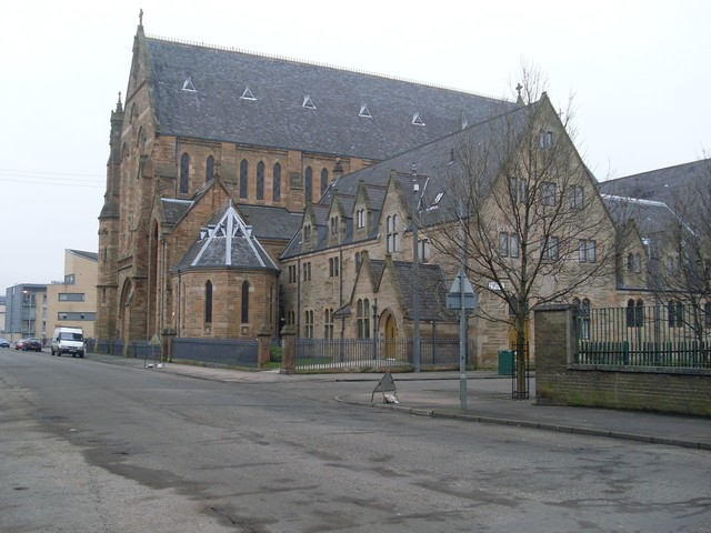 St Francis' RC Church, Hutchesontown Stunning piece of church architecture. Designed by Glaswegian architect Alexander "Greek" Thomson.